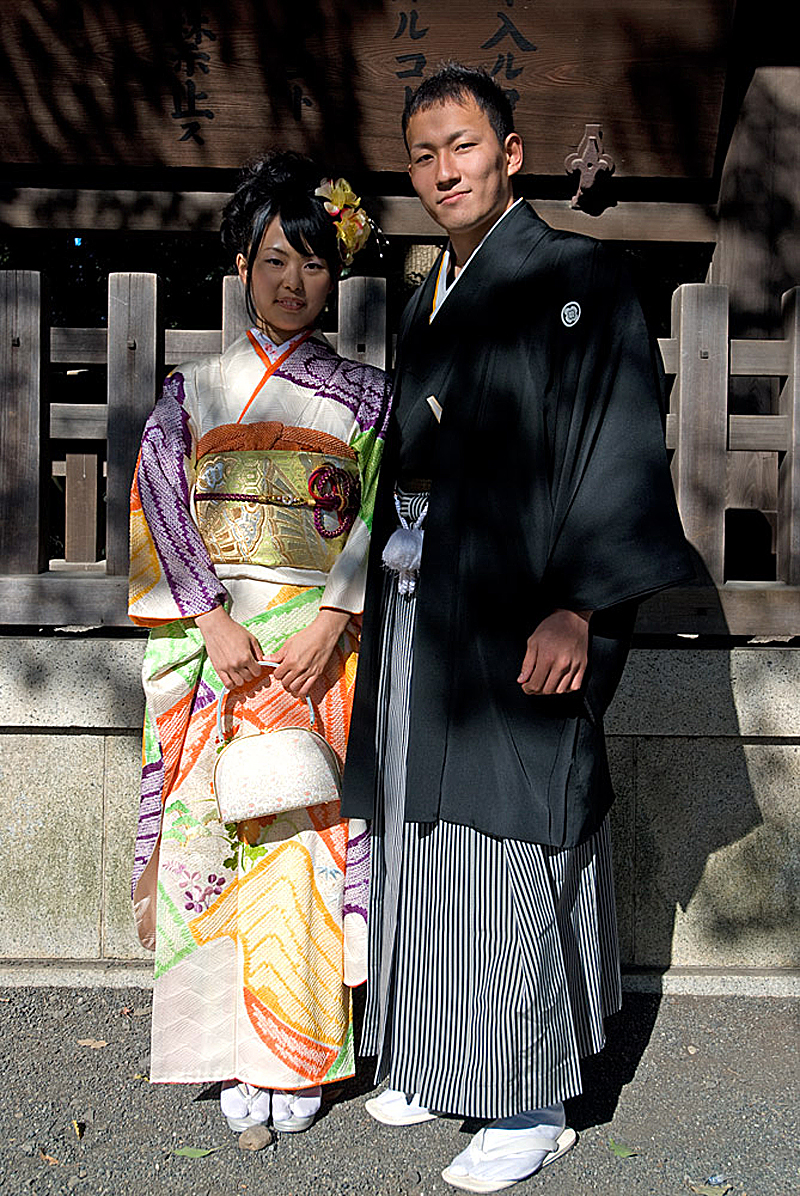 A couple dressed for Seijin shiki in front of Meiji jingu temple in january 2011